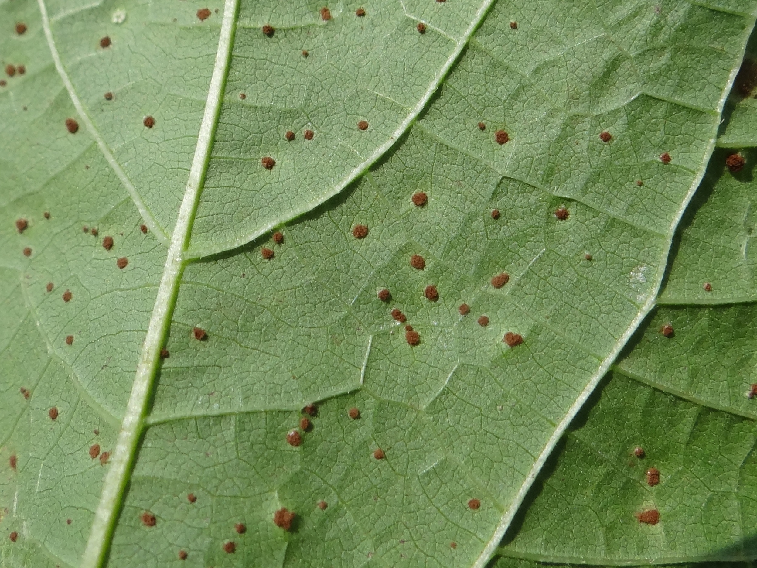 Uromyces appendiculatus (uredinium) on Phaseolus